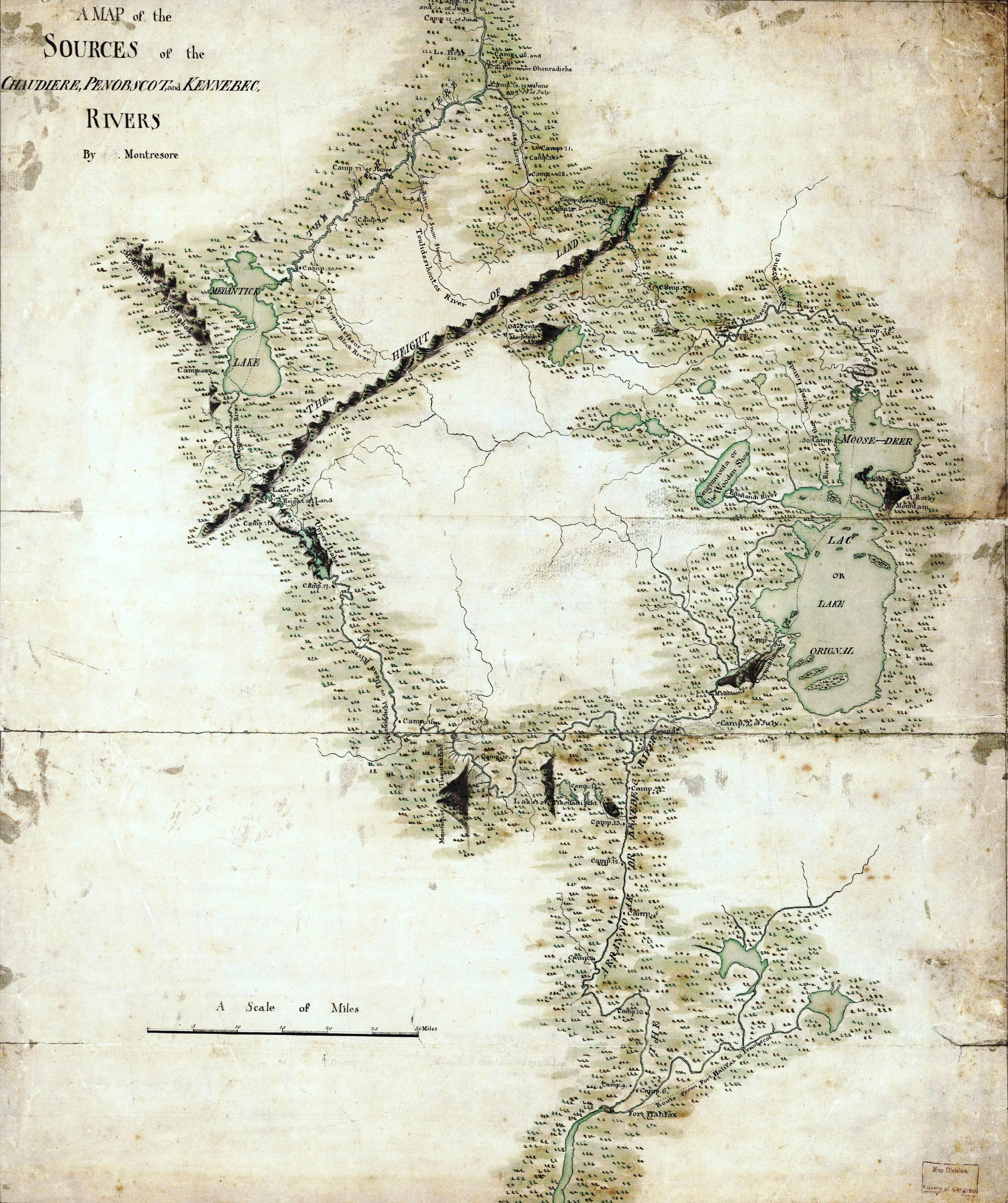 This is an image of a map prepared by British military engineer John Montresor, circa 1760, showing the headwaters of the Penobscot River, Kennebec River, which empty into the Gulf of Maine, and the Chaudière River, which empties into the Saint Lawrence River. Benedict Arnold used this map as a guide for his expedition to Quebec in 1775.